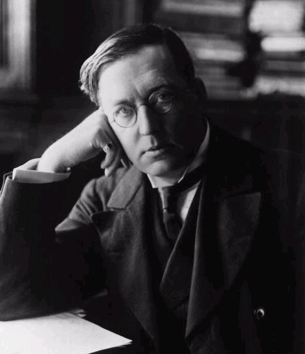 M R James